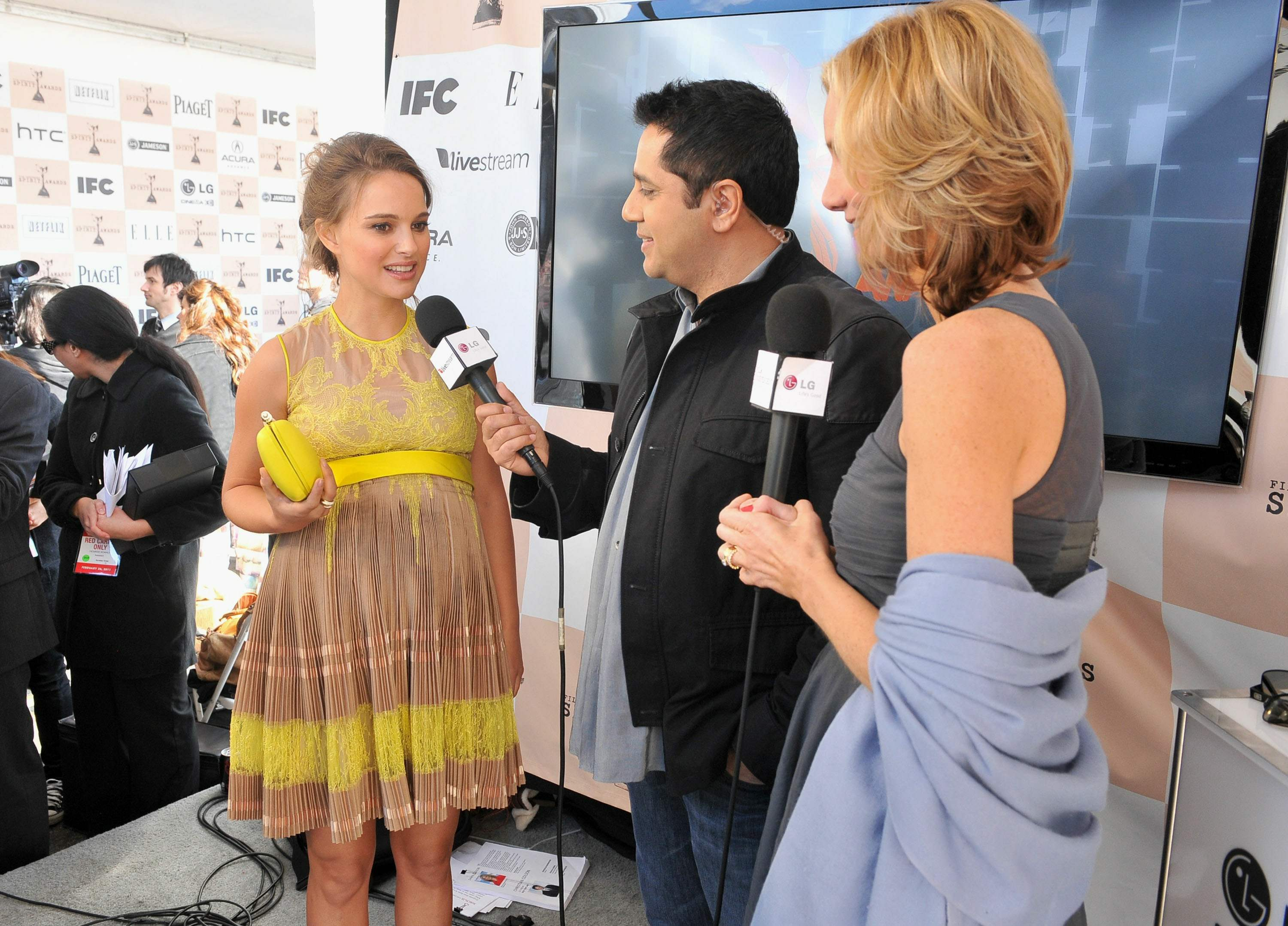 Natalie Portman at the 2011 Film Independent's Spirit Awards.